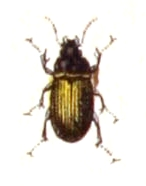 Amara lunicollis, from Calwer's Käferbuch, Table 6, Picture 11. Taxonomy was updated to 2008, using mostly the sites Fauna Europaea and BioLib. Please contact Sarefo if the determination is wrong!